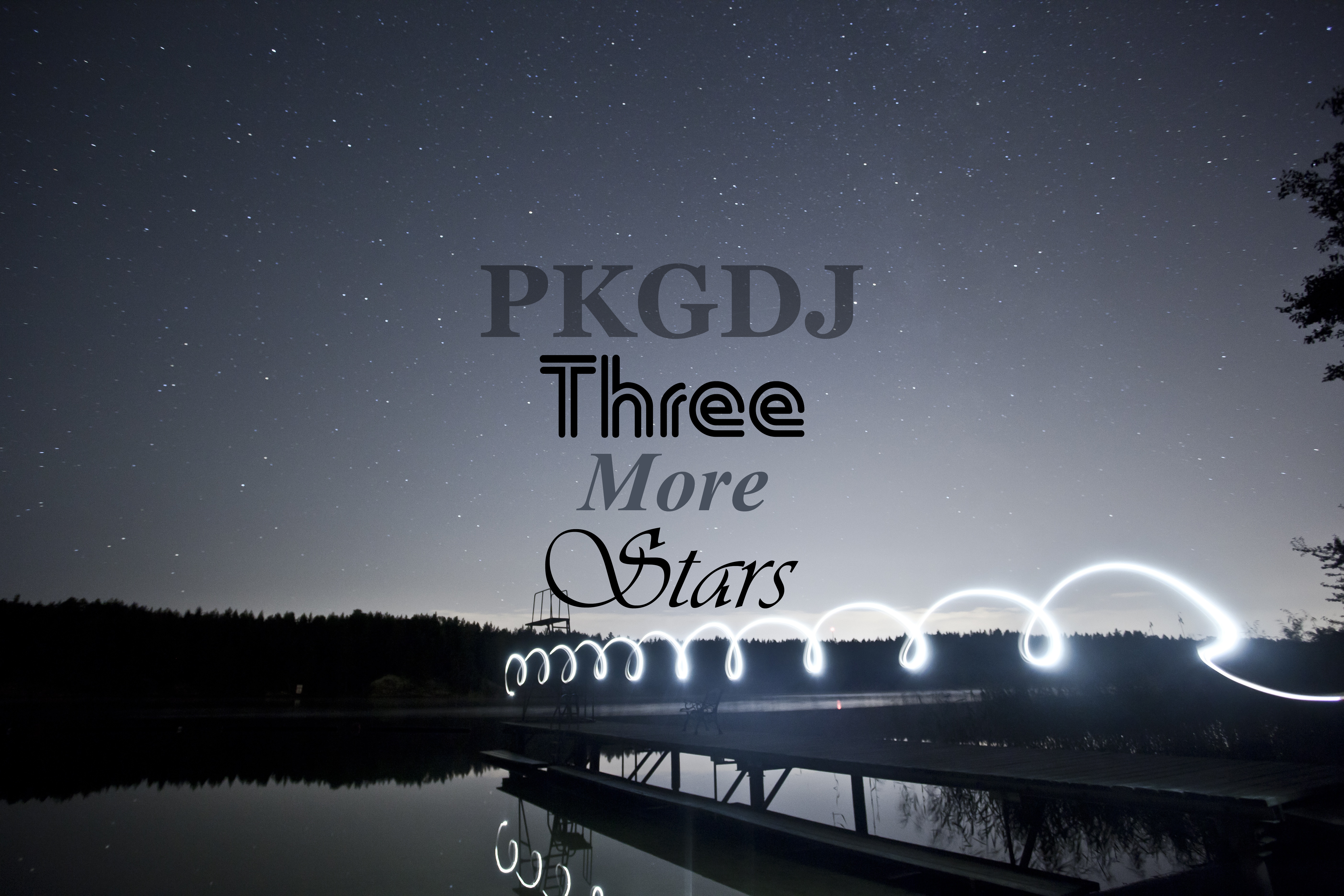 This is a photo created by me and was used as a cover in the music album "Three more stars"